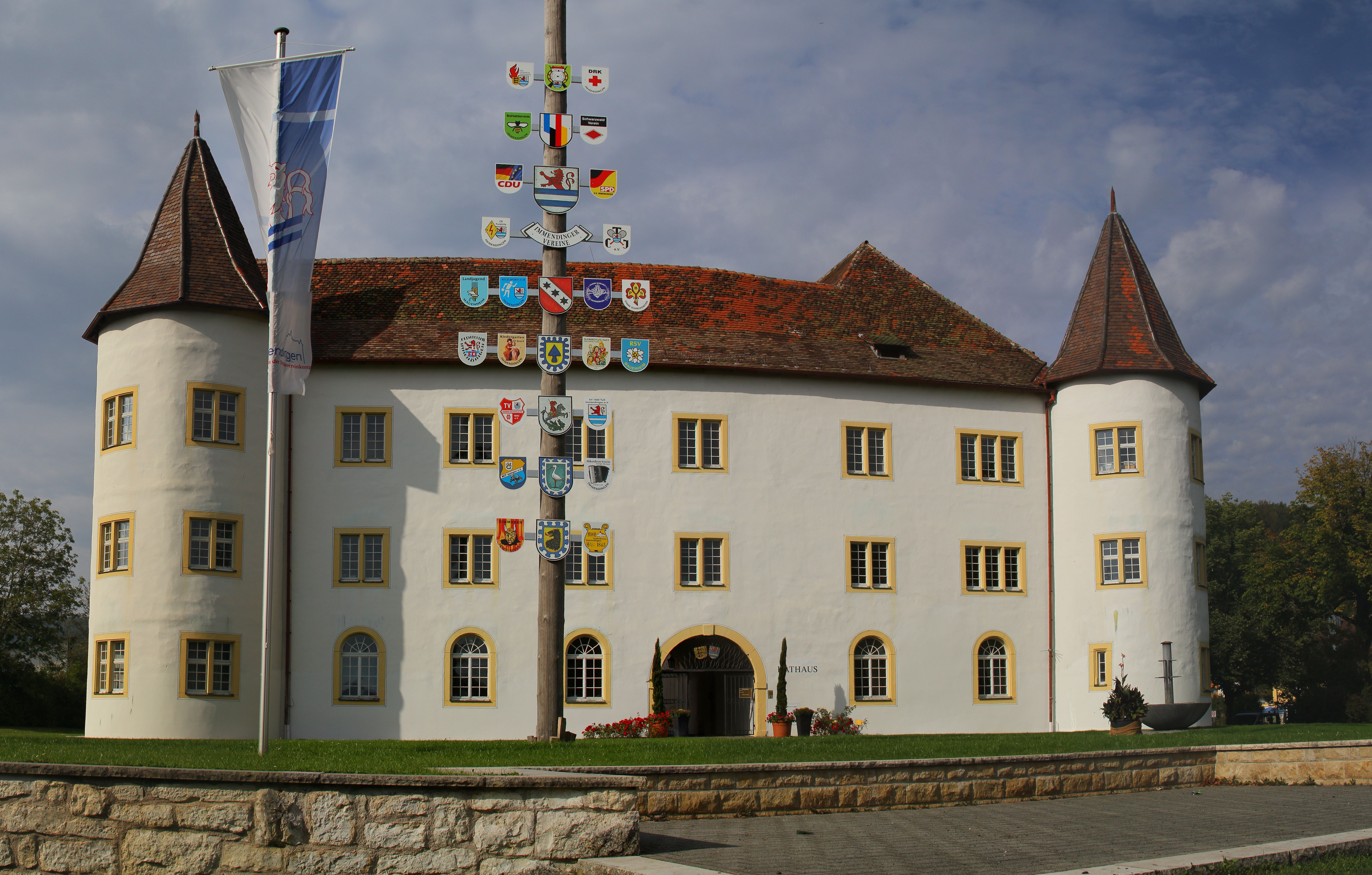 "Oberes Schloss" (used as Cityhall) of Immendingen